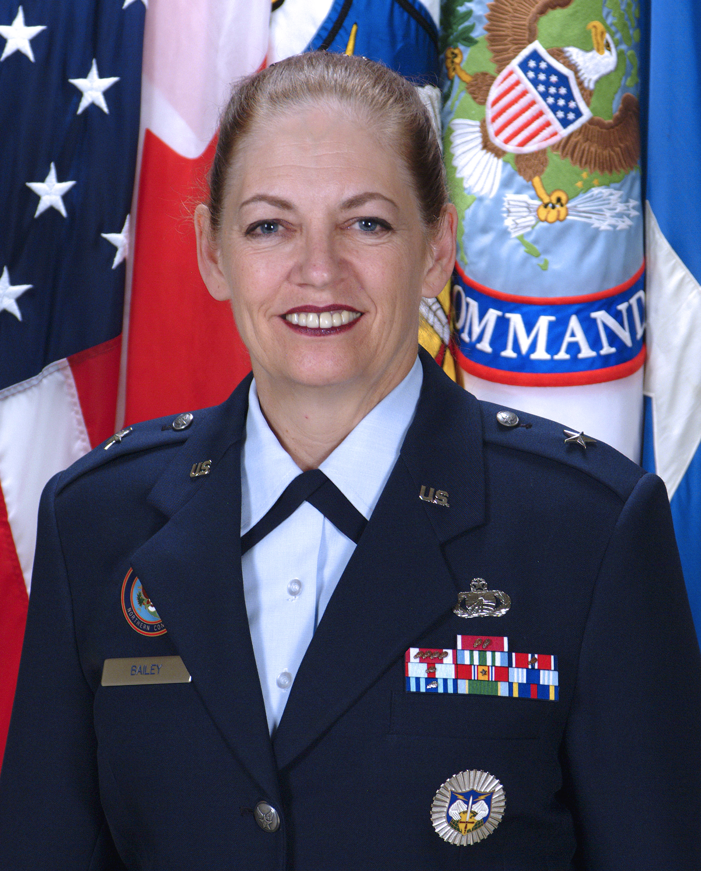 Official U.S. Air Force Photo